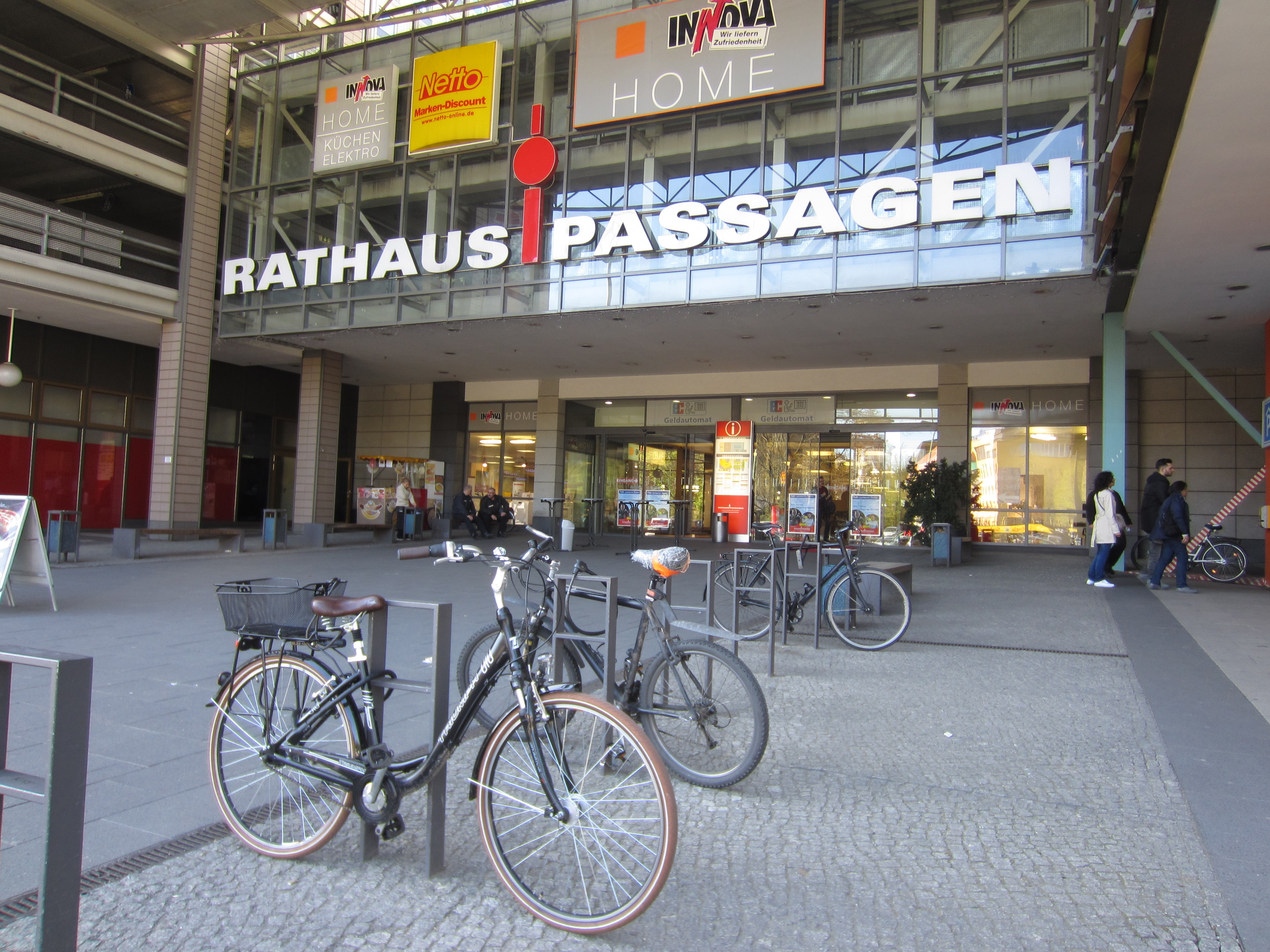 Berlin, Germany (April 2016)